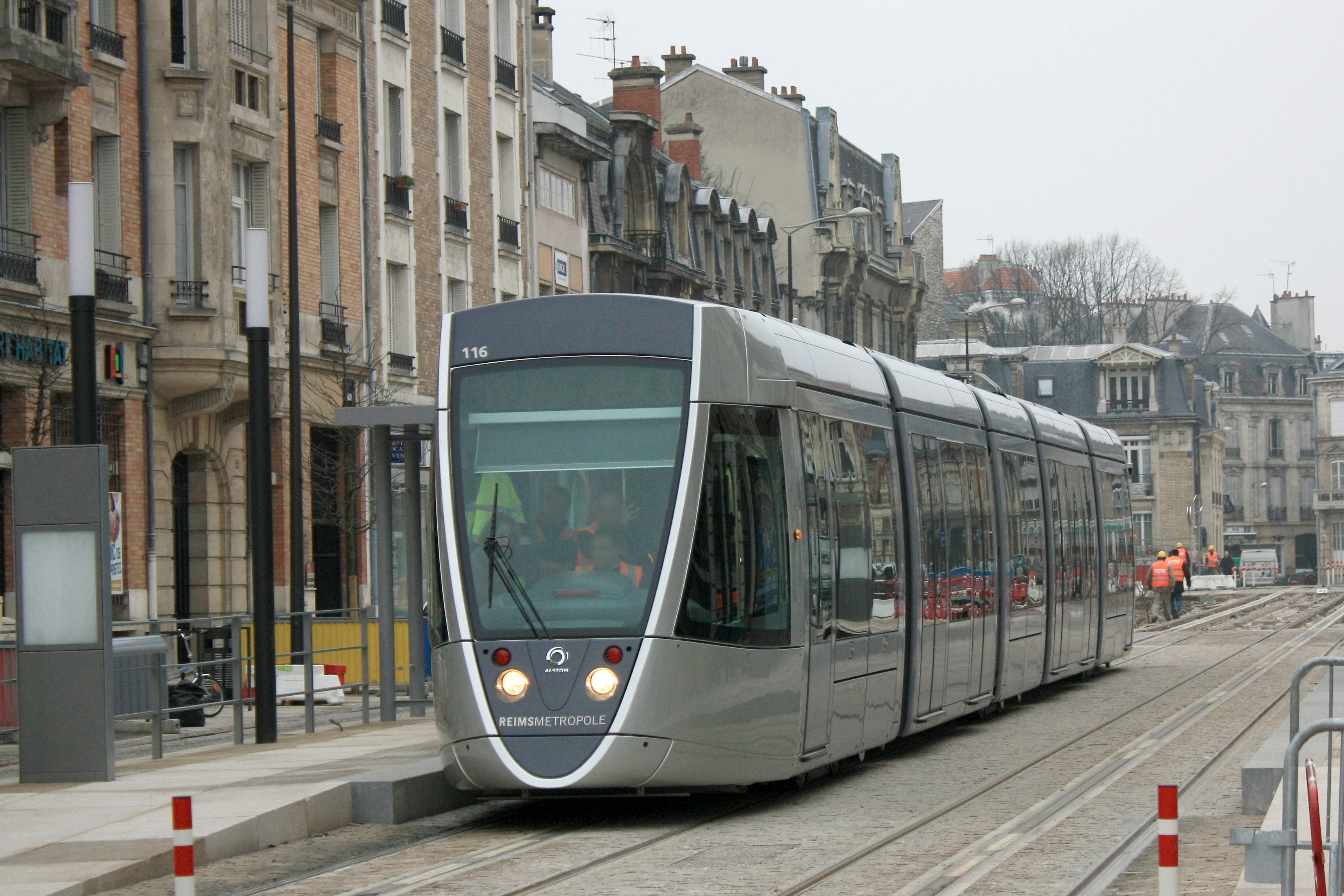 Alstom Citadis TGA 302 TORA on test. Rheims France.